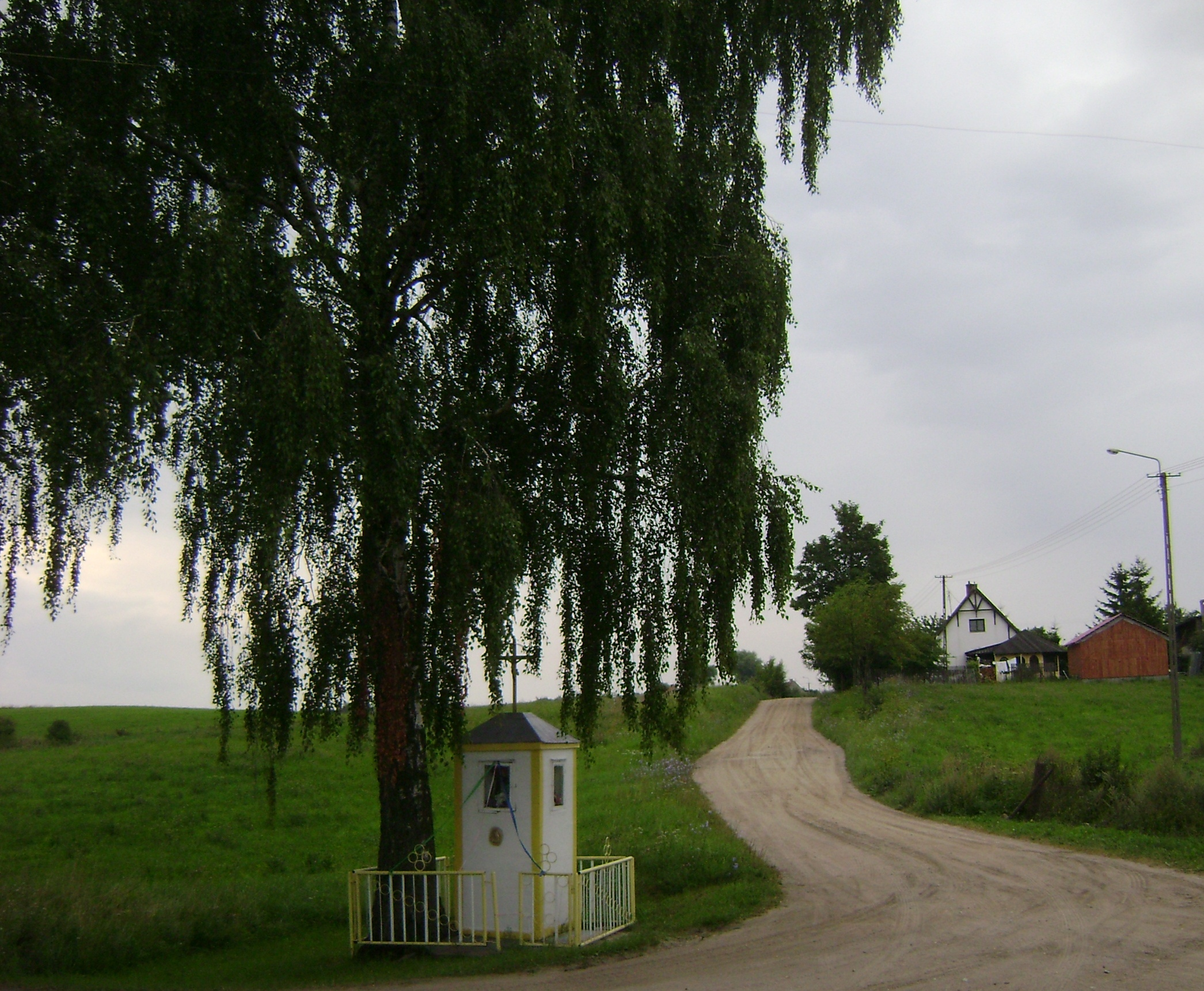 Poland. Gmina Pasym. Dybowo Village